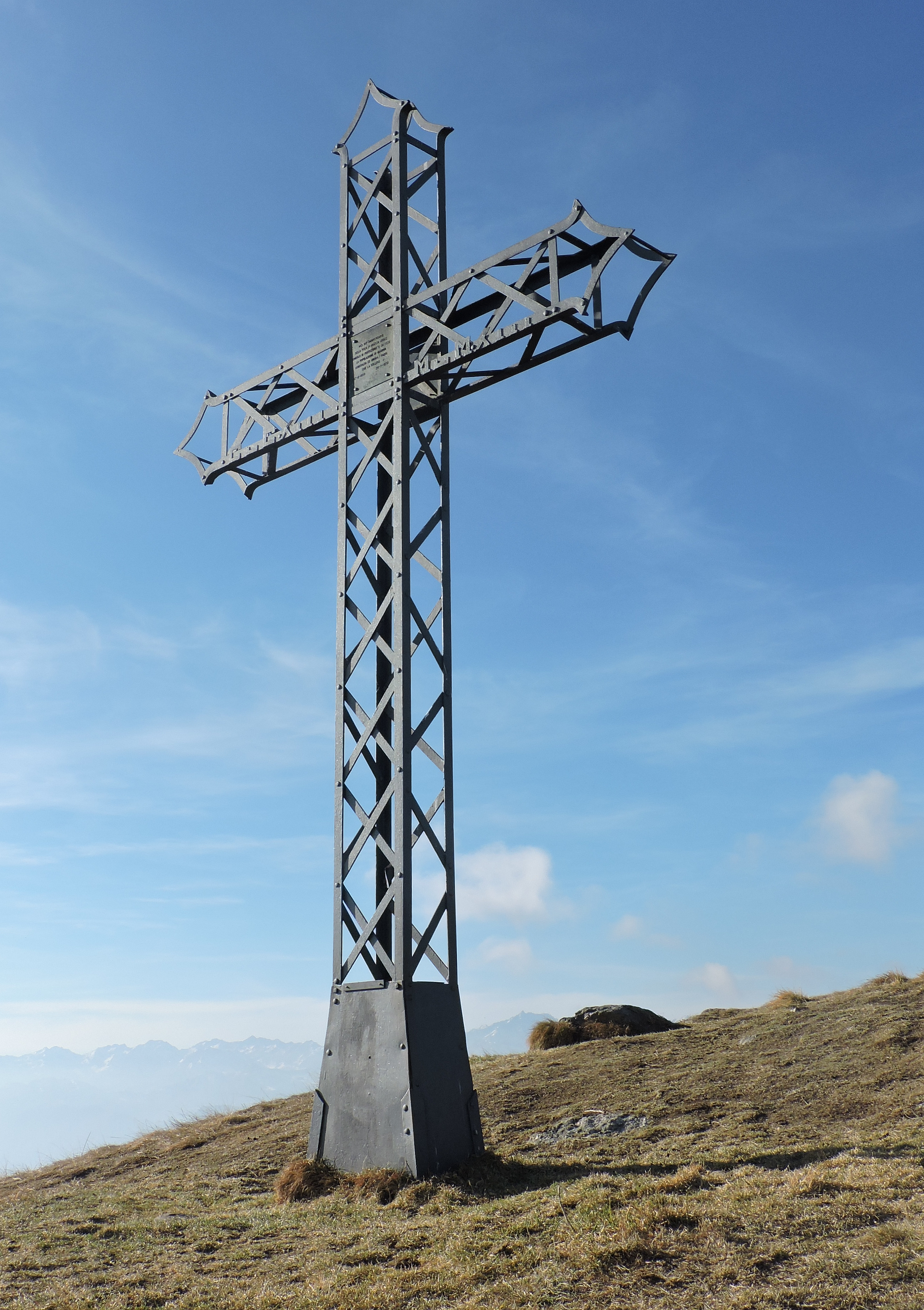 Monte Croce (Alpi Cusiane): summit cross